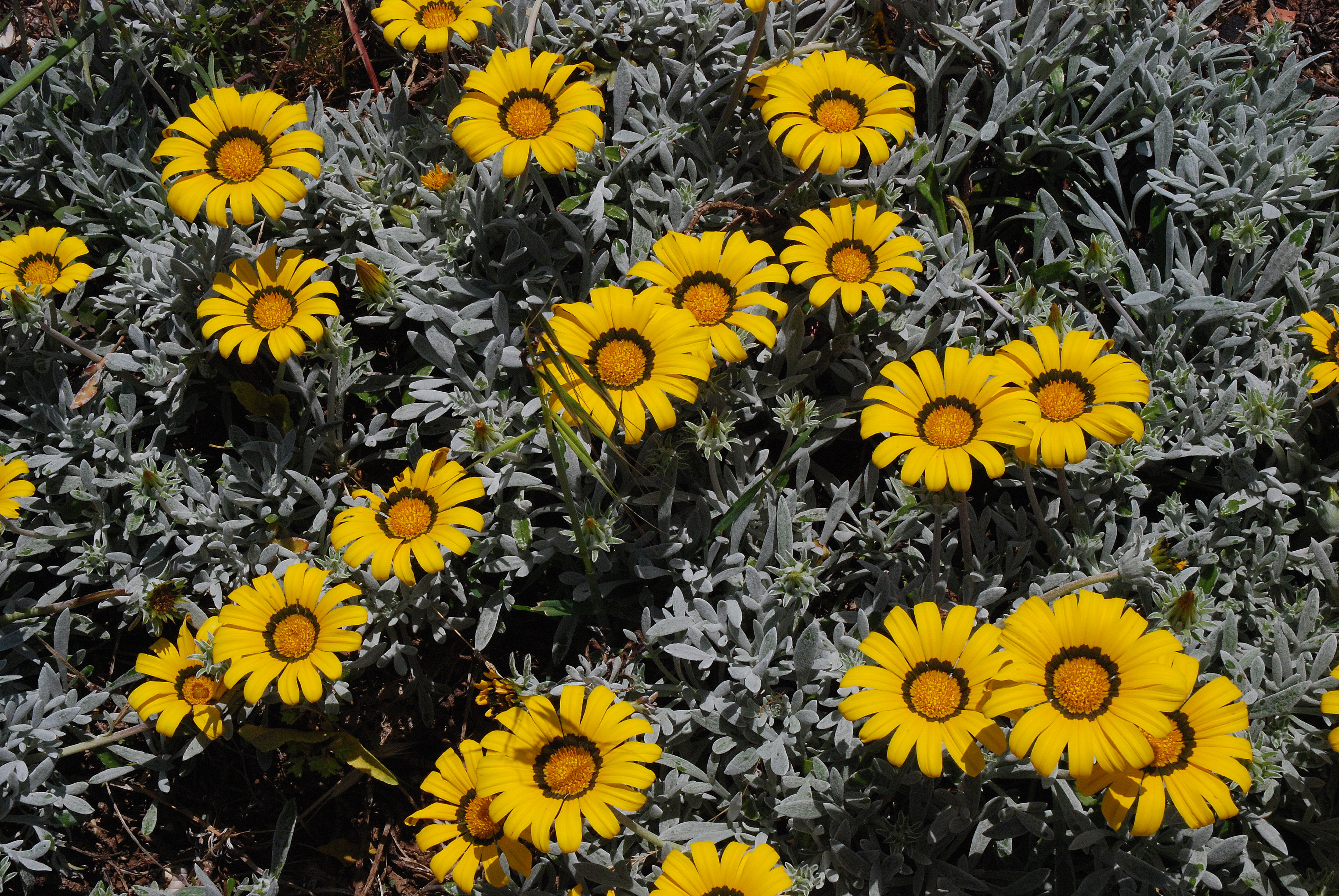 Gazania linearis (syn. G. longiscapa)